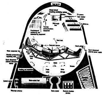 Martin's proposal for manned capsule for USAF/NASA Project 7969.